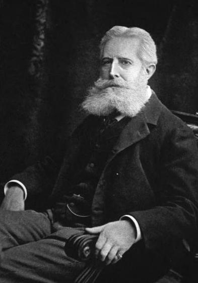 Photo of American poet/essayist/critic Edmund Clarence Stedman, from the frontispiece to The Poems of Edmund Clarence Stedman, Boston and New York: Houghton Mifflin Company, 1908.